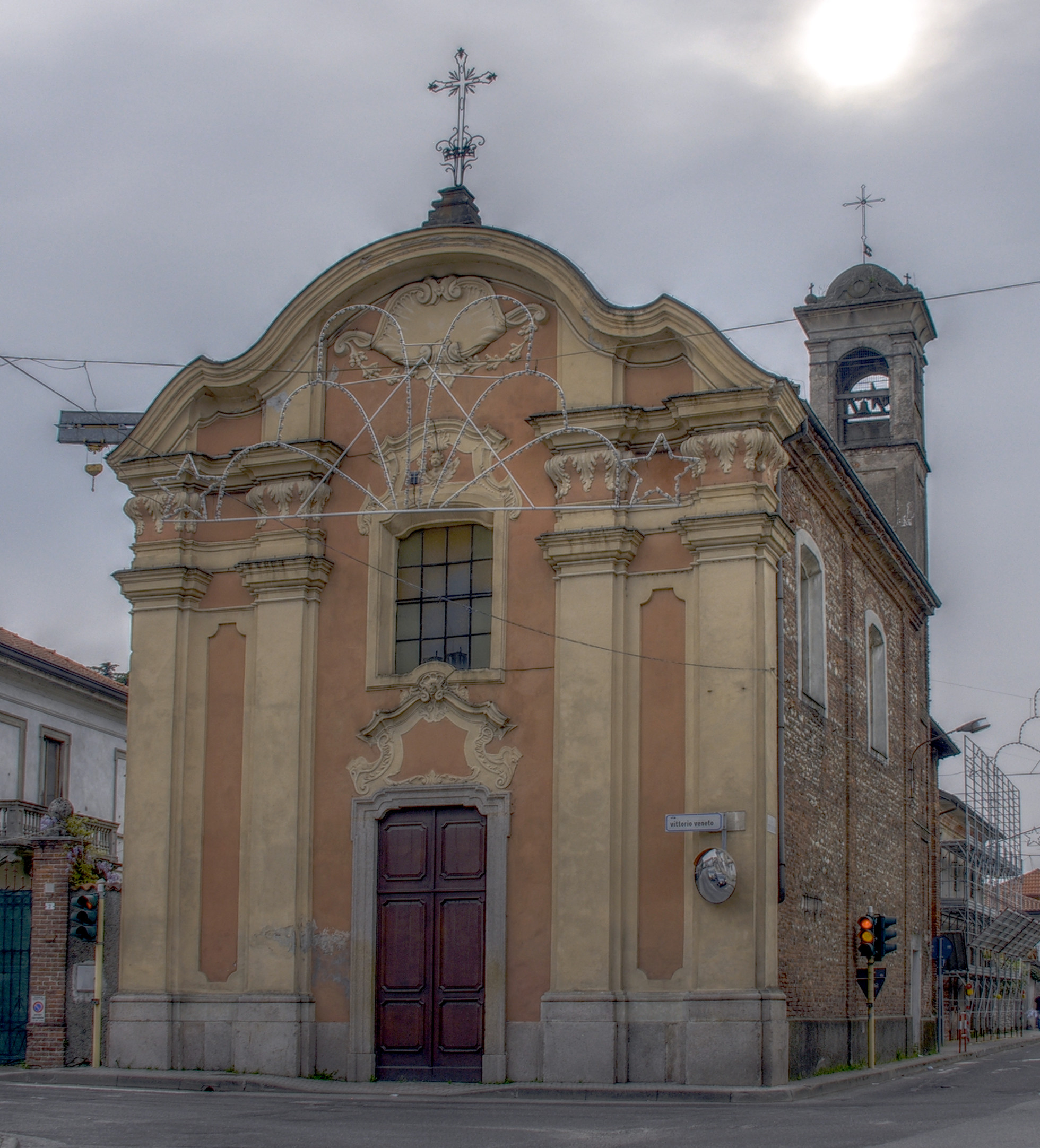 Castano Primo, MI, Italy - San Rocco church external view